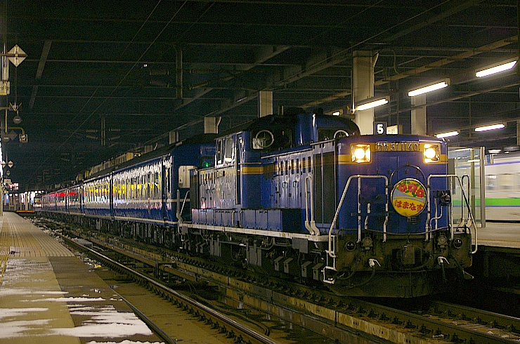 JR Hokkaido Class DD51 diesel locomotive DD51 1140 on a Hamanasu overnight express service at Sapporo Station